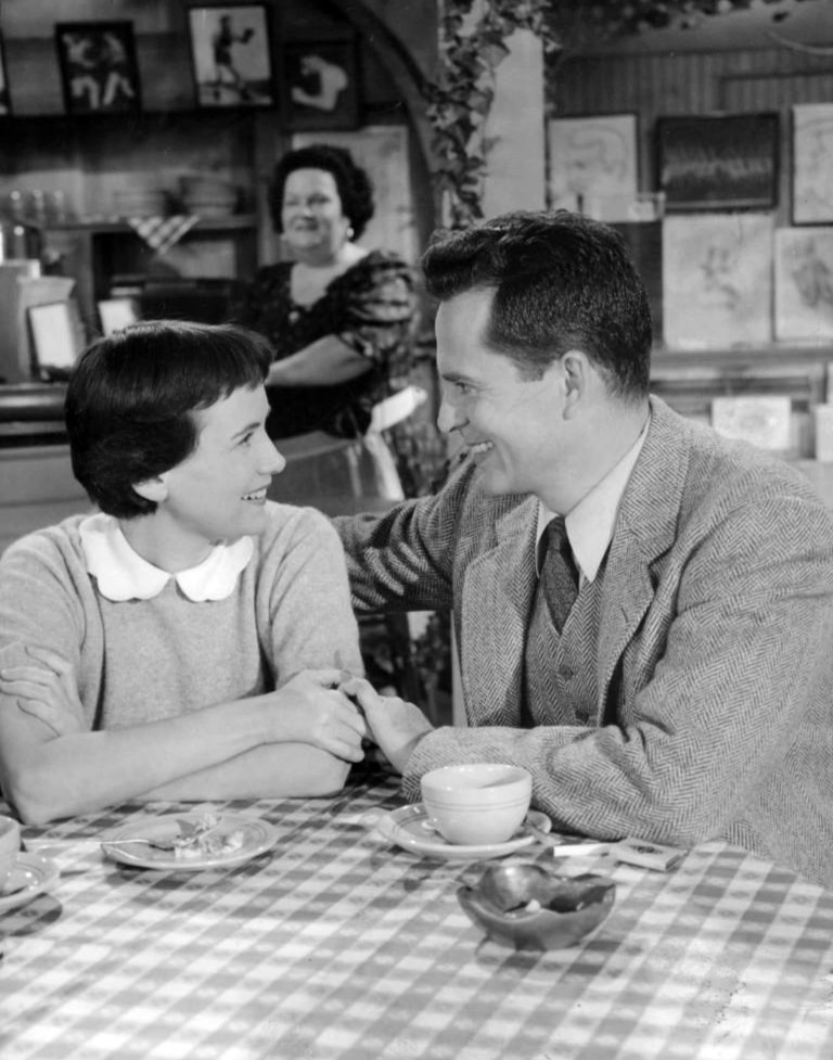 Photo of Teresa Wright and Larry Parks from the presentation "The Happiest Day" of the television program Ford Theatre.